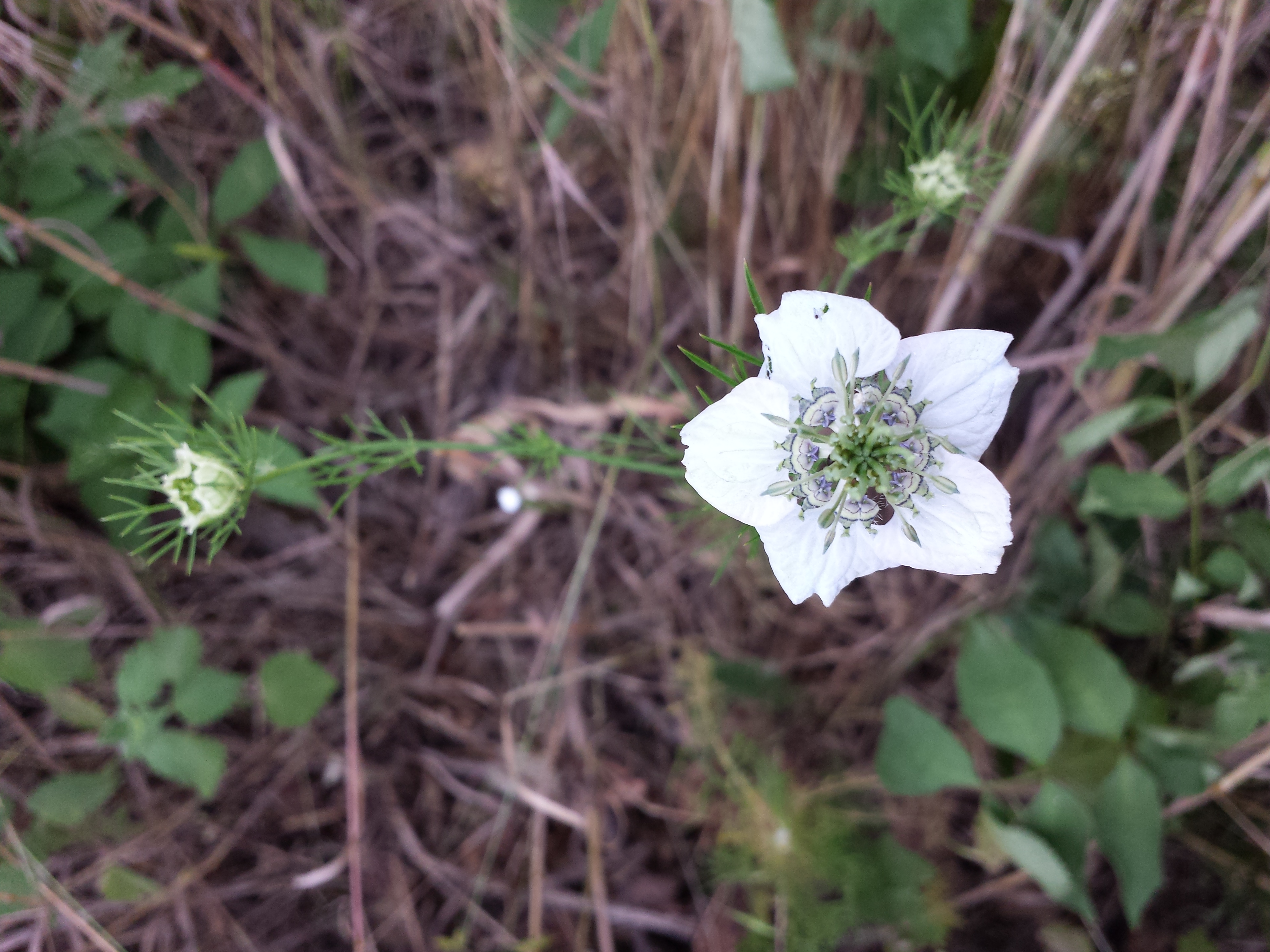 Habitus Taxon: Nigella arvensis (sensu Fischer et al. EfÖLS 2008 ISBN 978-3-85474-187-9; det. M. A. Fischer 2014-06-14) Location: near nature reserve Šibeničník near Mikulov, Jihomoravský kraj, Czech Republic - ca. 200 m a.s.l. Habitat: fallow land